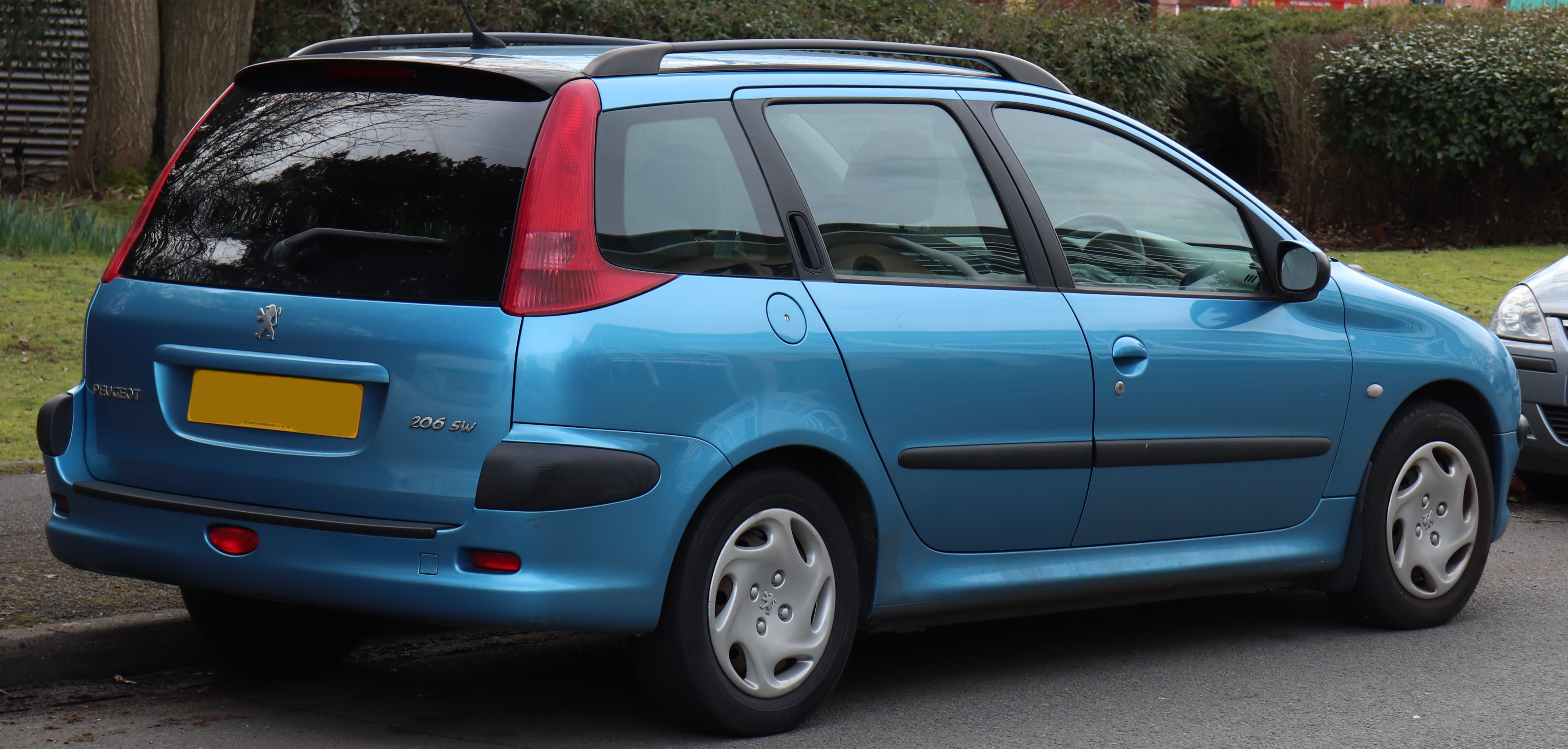 2002 Peugeot 206 SW HDi XT 2.0 Rear Taken in Leamington Spa